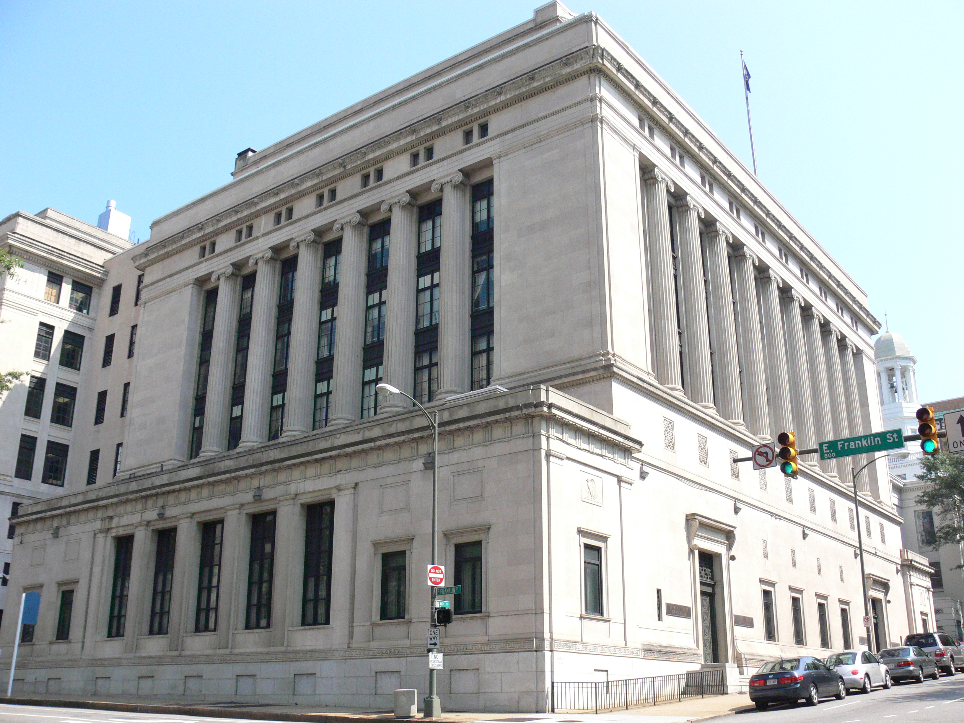 The Supreme Court of Virginia Building, adjacent to Capitol Square in Richmond, Virginia